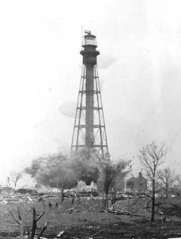 Public Domain statement here; Demolition charges explode at the base of the 1896 Hog Island Lighthouse. Photo taken 1948.